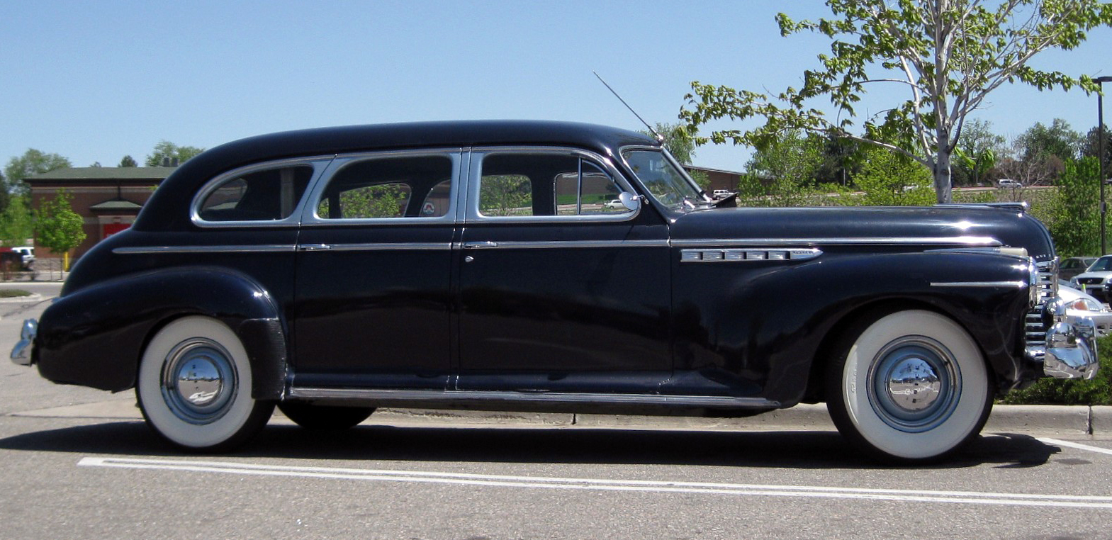 1941 Buick Limited Series 90 o some sort, in Loveland, Colorado / 2009. The Limited sat on a 139 inch wheelbase and was available in four different seating combos - six or eight seats, with or without a partition.